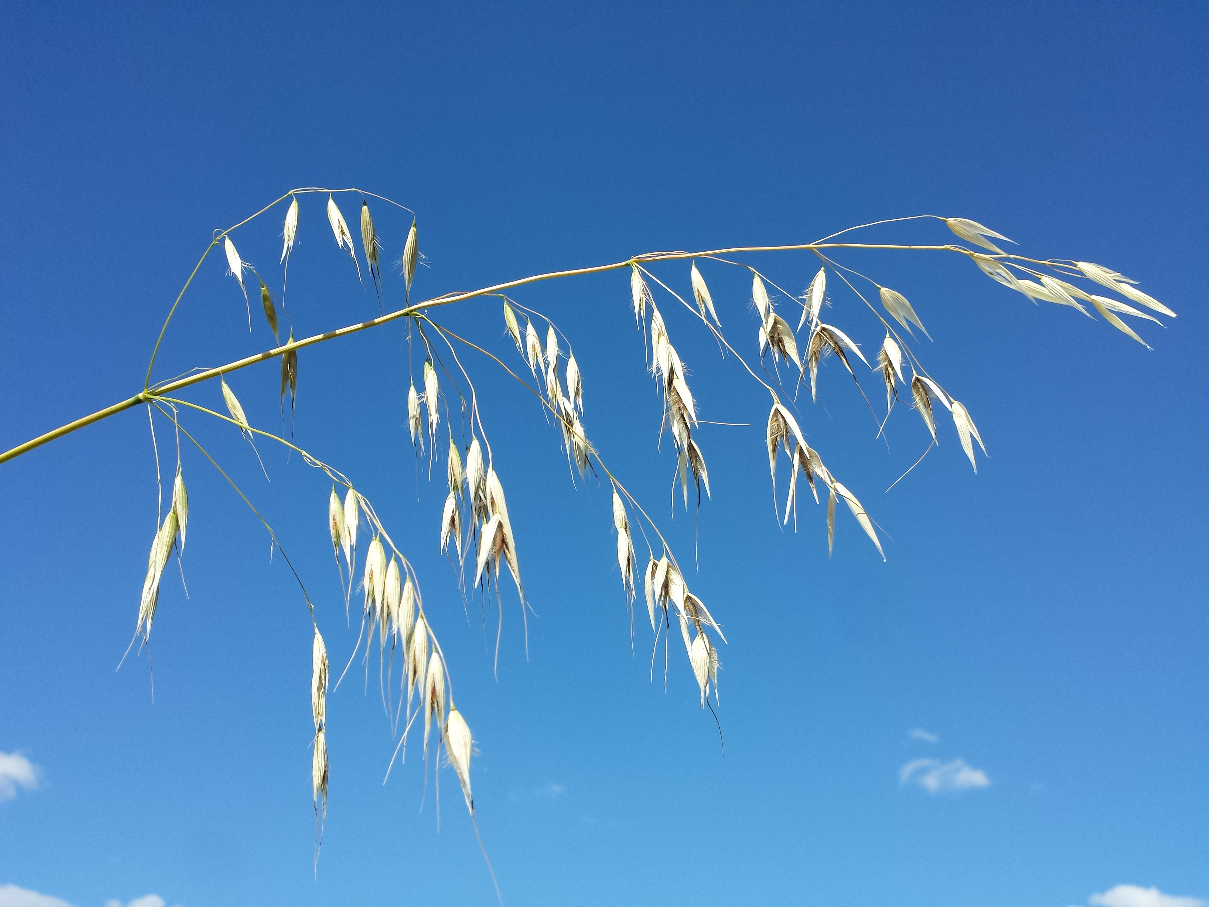 Panicle Taxonym: Avena fatua ss Fischer et al. EfÖLS 2008 ISBN 978-3-85474-187-9 Location: next to Groß-Jedlersdorf cemetery, Vienna-Floridsdorf - ca. 160 m a.s.l. Habitat: border of a field